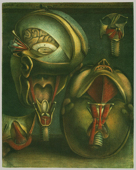 Colour plate by Jacques Gautier d'Agoty (1716-1785) showing some of the muscles of the head. Part of a series of illustrations from Myologie complete en couleur et grandeur naturelle (1746) with texts by French physician and anatomist Joseph-Guichard Du Verney (a.k.a. Duverney) (1648-1730).